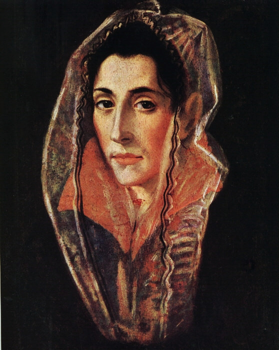 Female portrait (Jeronima de las Cuevas)